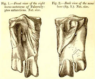 Huxley’s original illustration of the fossil of an ankle bone from the penguine Palaeeudyptes antarcticus described in 1859. This work is in the public domain in its country of origin and other countries and areas where the copyright term is the author's life plus 70 years or less. You must also include a United States public domain tag to indicate why this work is in the public domain in the United States. Note that a few countries have copyright terms longer than 70 years: Mexico has 100 years, Jamaica has 95 years, Colombia has 80 years, and Guatemala and Samoa have 75 years. This image may not be in the public domain in these countries, which moreover do not implement the rule of the shorter term. Côte d'Ivoire has a general copyright term of 99 years and Honduras has 75 years, but they do implement the rule of the shorter term. Copyright may extend on works created by French who died for France in World War II (more information), Russians who served in the Eastern Front of World War II (known as the Great Patriotic War in Russia) and posthumously rehabilitated victims of Soviet repressions (more information). This file has been identified as being free of known restrictions under copyright law, including all related and neighboring rights.